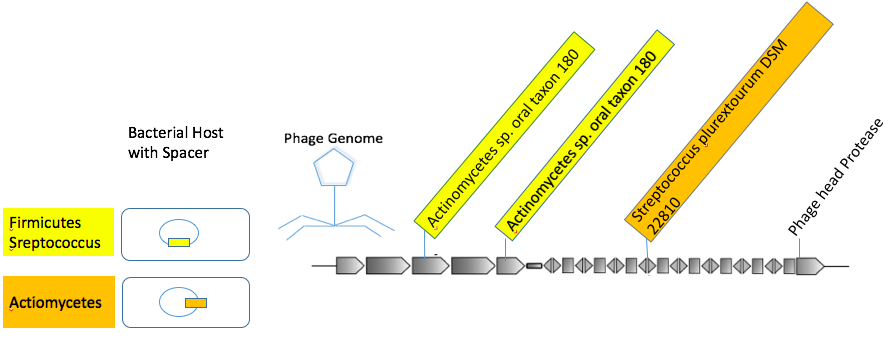 Expanded host virus